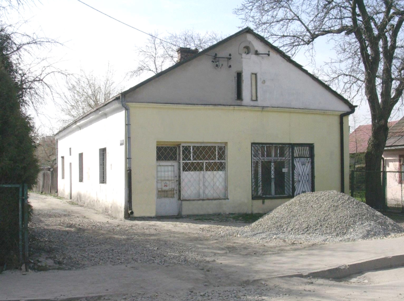 Building of former Synagogue in Stalowa Wola - Rozwadów, Poland, picture taken on 2007/04/03